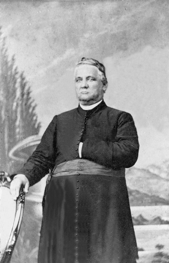 Portrait of Joseph-Marie Paquet, a Lower Canada priest born in Quebec City in 1804 and died in 1869 in Montreal.